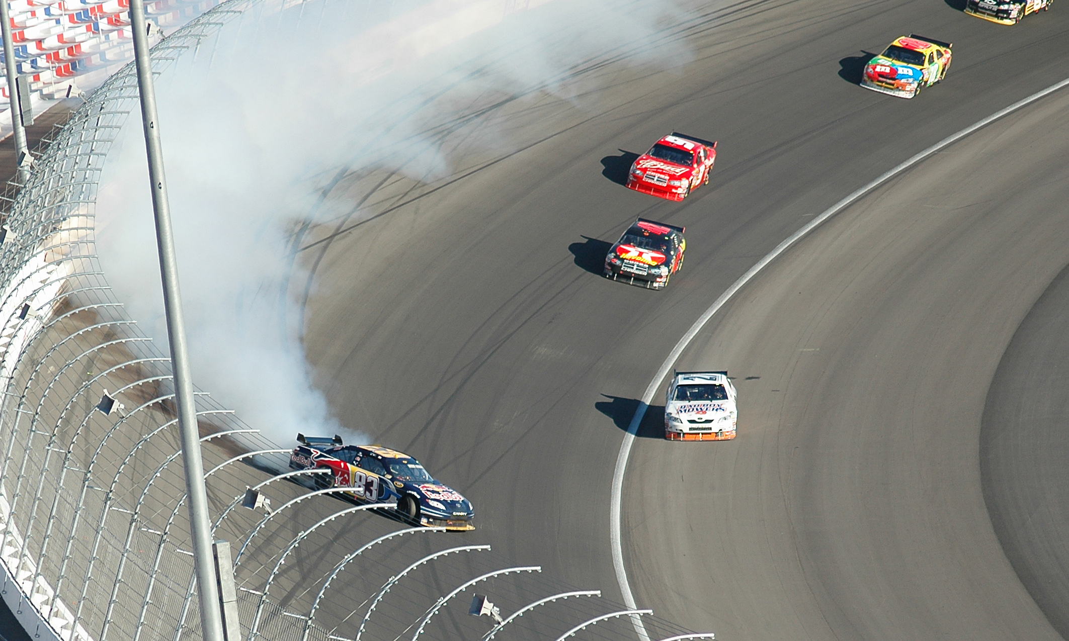 Brian Vickers Crashes at the 2008 Las Vegas NASCAR race.